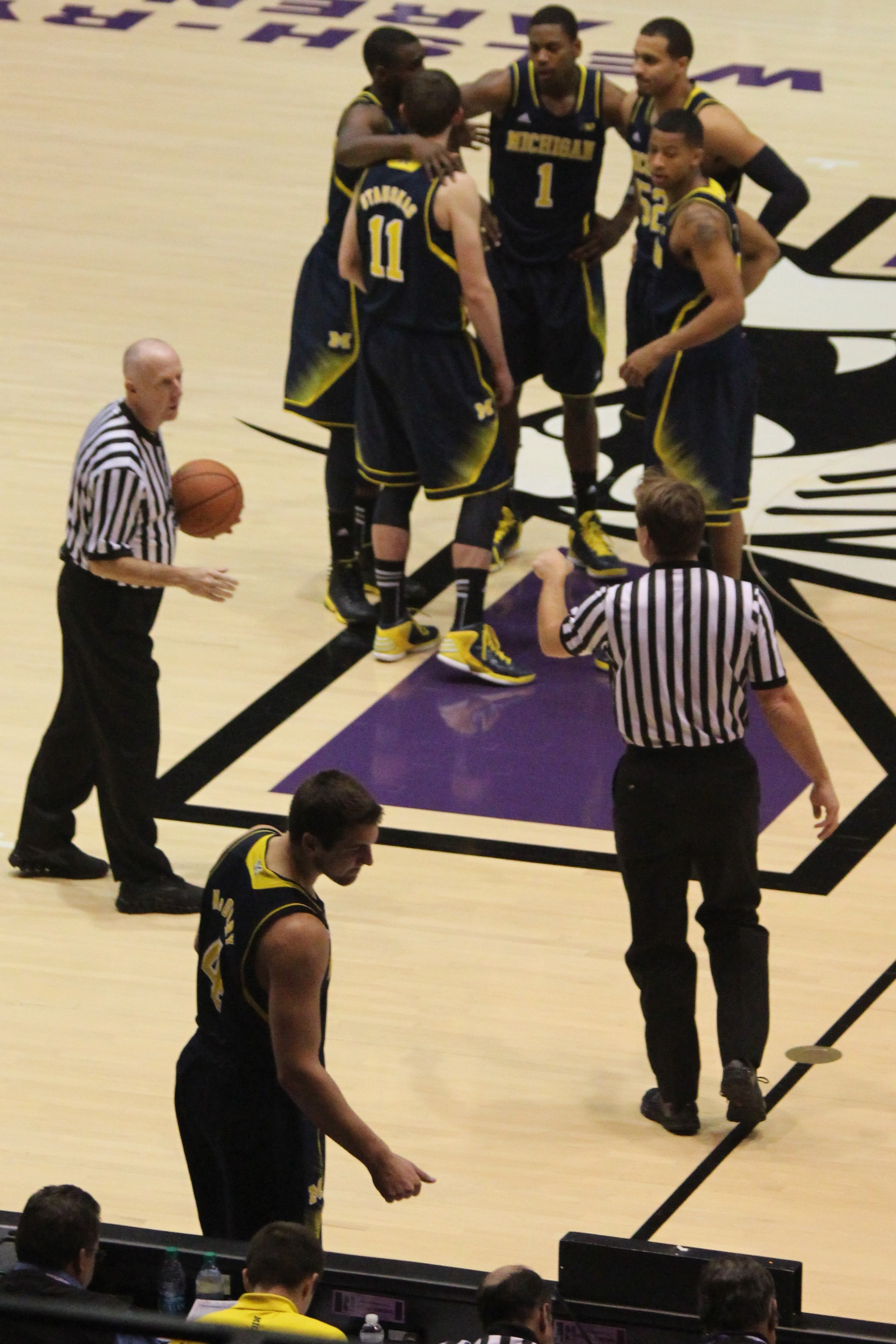 2012–13 Michigan Wolverines men's basketball team as Sixth man Mitch McGary substitutes in for one of starting five #1 Glenn Robinson III, #3 Trey Burke, #10 Tim Hardaway, Jr., #11 Nik Stauskas and #52 Jordan Morgan